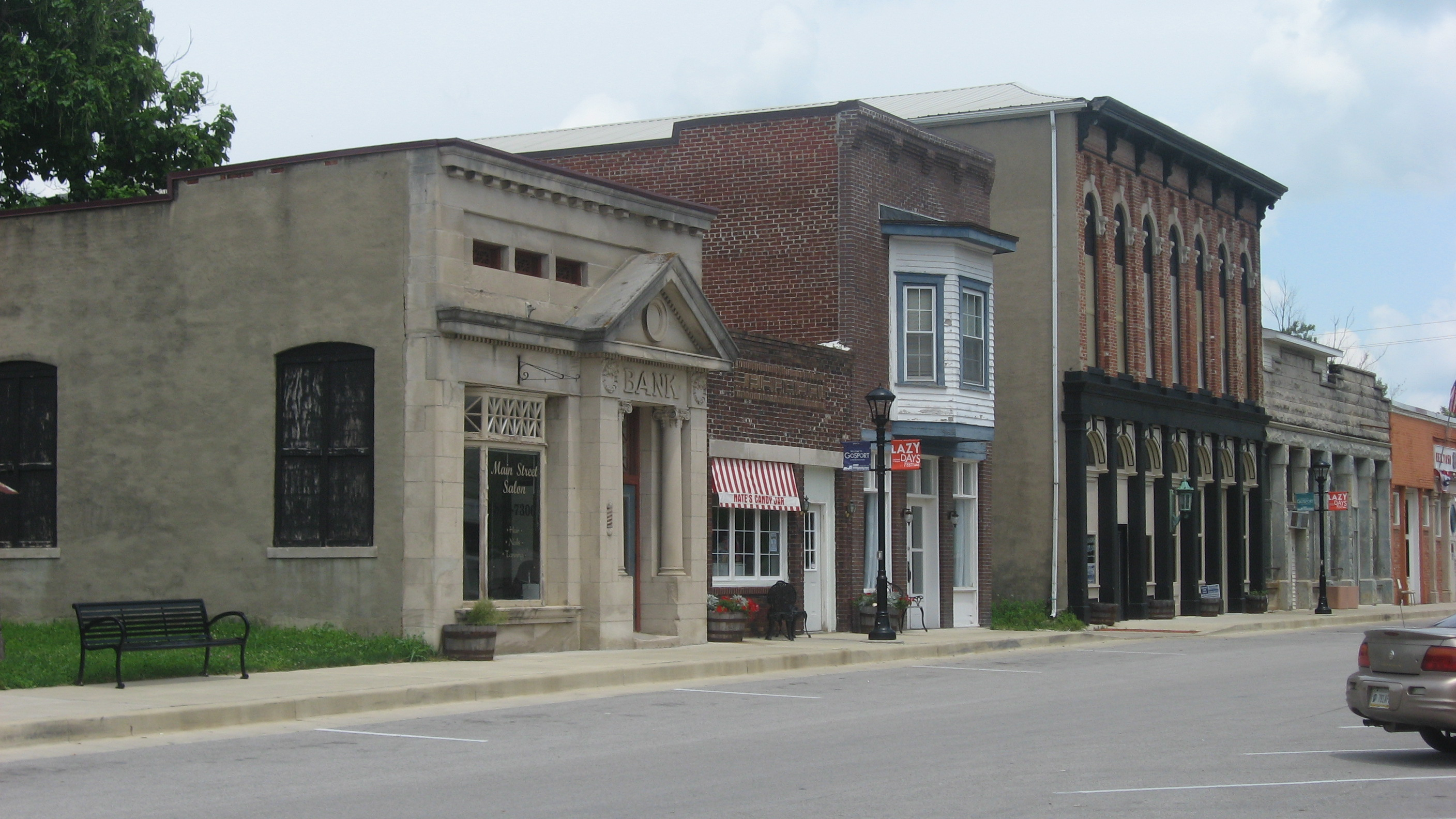 Buildings on the northern side of Main Street east of the Fourth Street intersection in downtown in Gosport, Indiana, United States. This block is part of the Gosport Historic District, a historic district that is listed on the National Register of Historic Places.